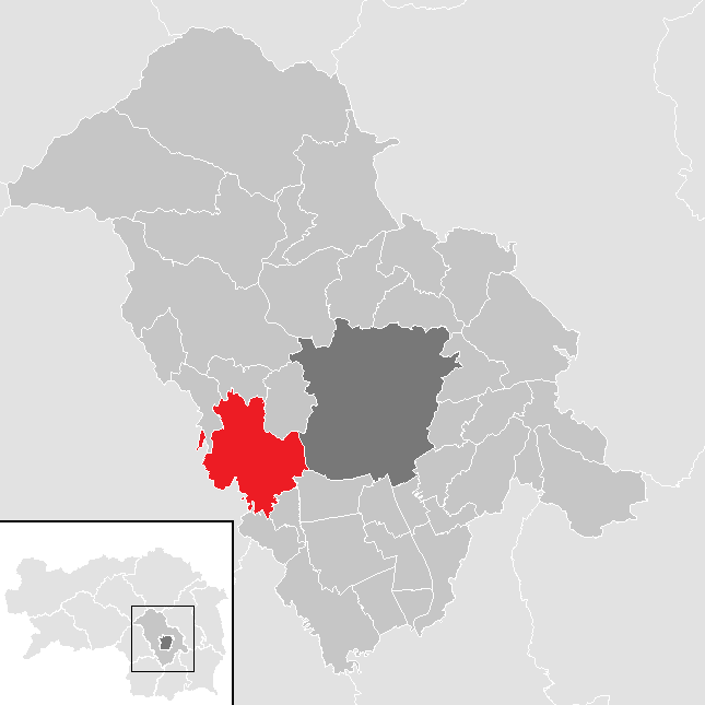 District Graz-Umgebung, Styria